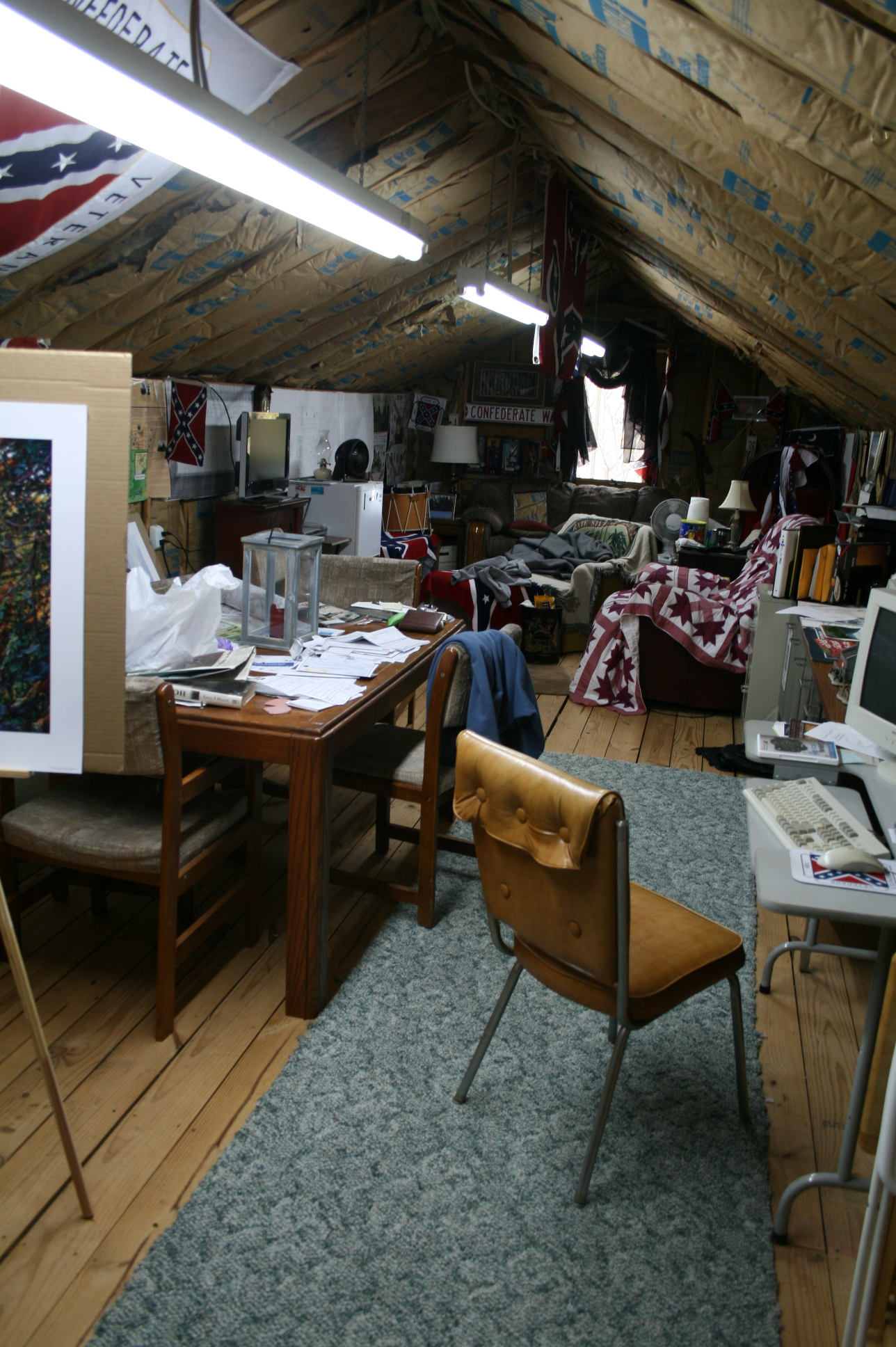 my dad's man cave He's a Civil War buff, so the whole place is tricked out in period paraphernalia.